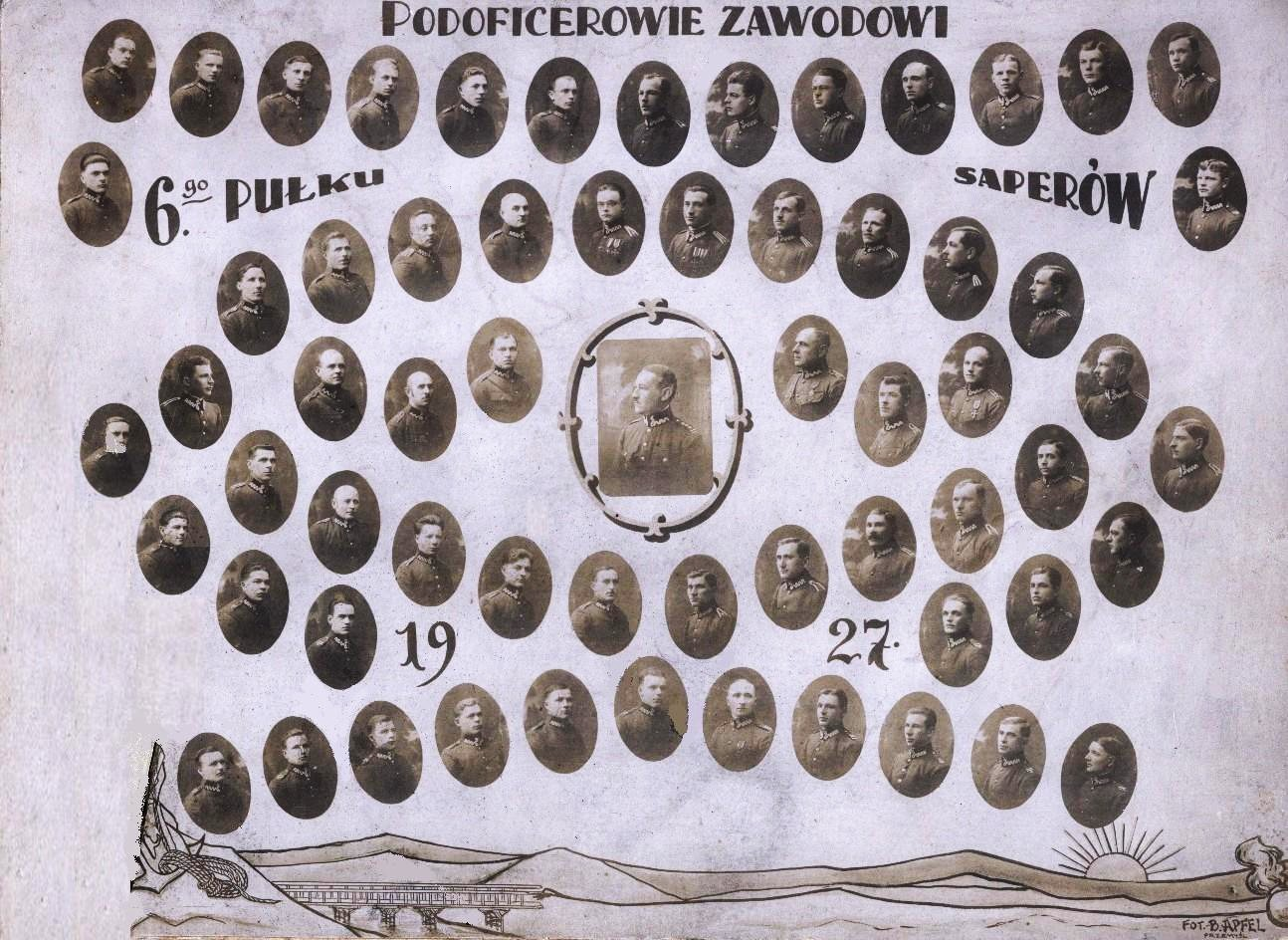 Non-commissioned officers 6 professional regiment sapper in Przemysl, Poland. Year 1927 (Third from right in bottom row: Stanislaw Zalicki)